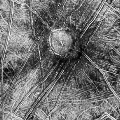 The impact crater Cilix on the Jovian moon of Europa imaged by the Galileo probe.